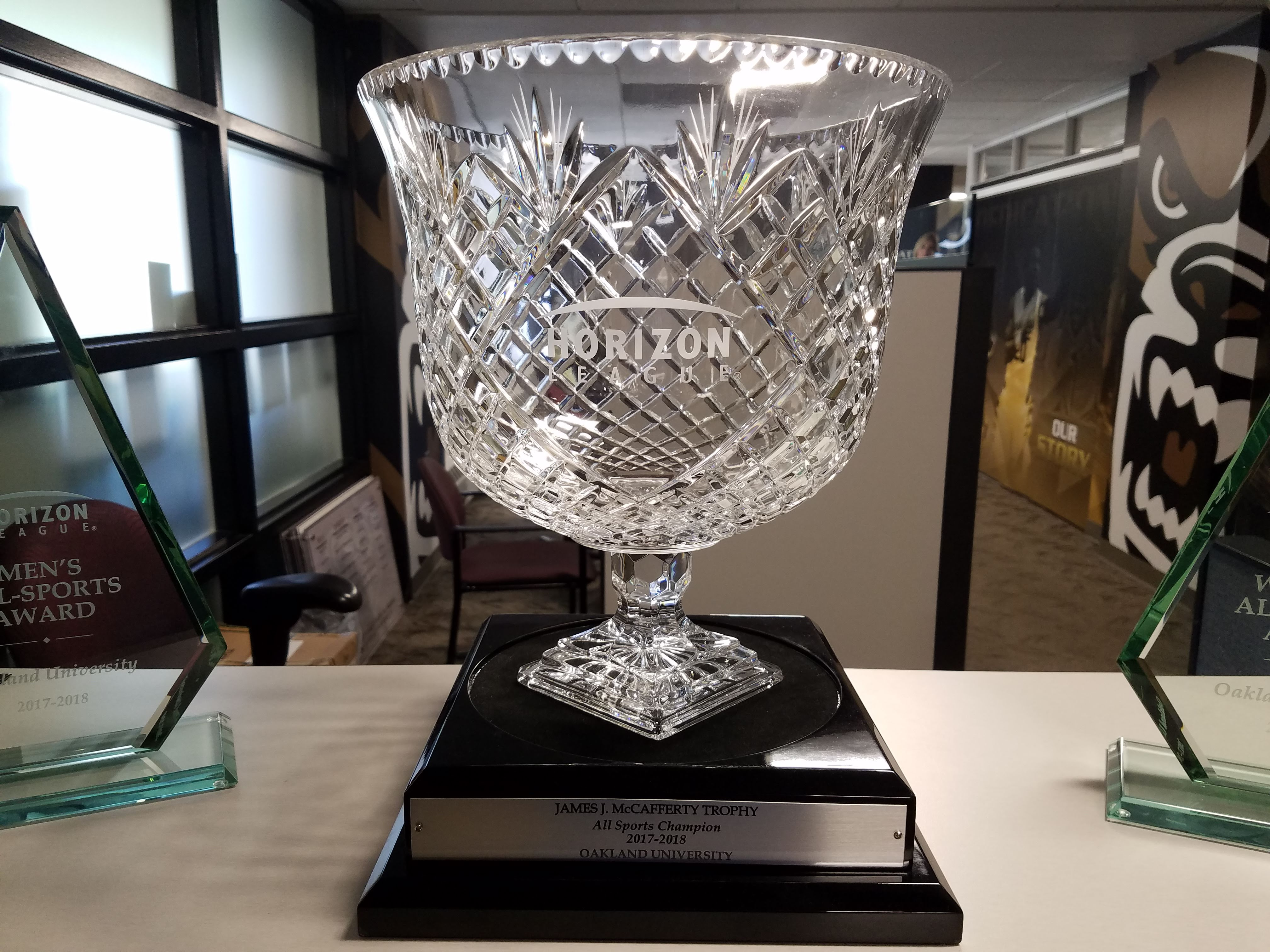 2017–18 version of the Horizon League's McCafferty trophy, given to the university with the best overall finishes in all sports.